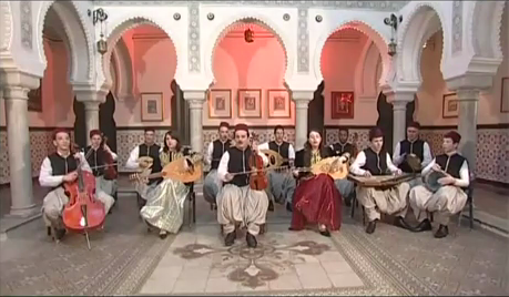 Andalusian School of Music- IBN BADJA Mostaganem - Algeria